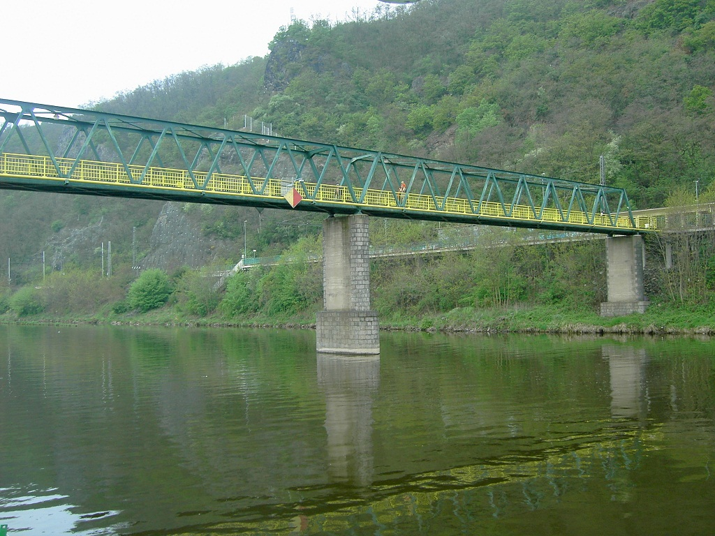 Footbrodge near Řež u Prahy at Moldau river